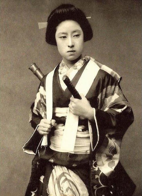 Photo of an actress or a geisha posing as Nakano Takeko, the famous female samurai warrior(Aizu)